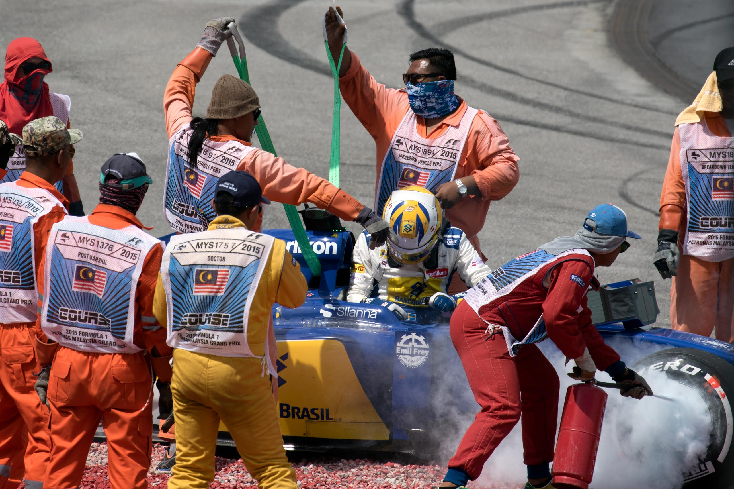 Formula One 2015 Rd.2 Malaysian GP: Marcus Ericsson (Sauber)